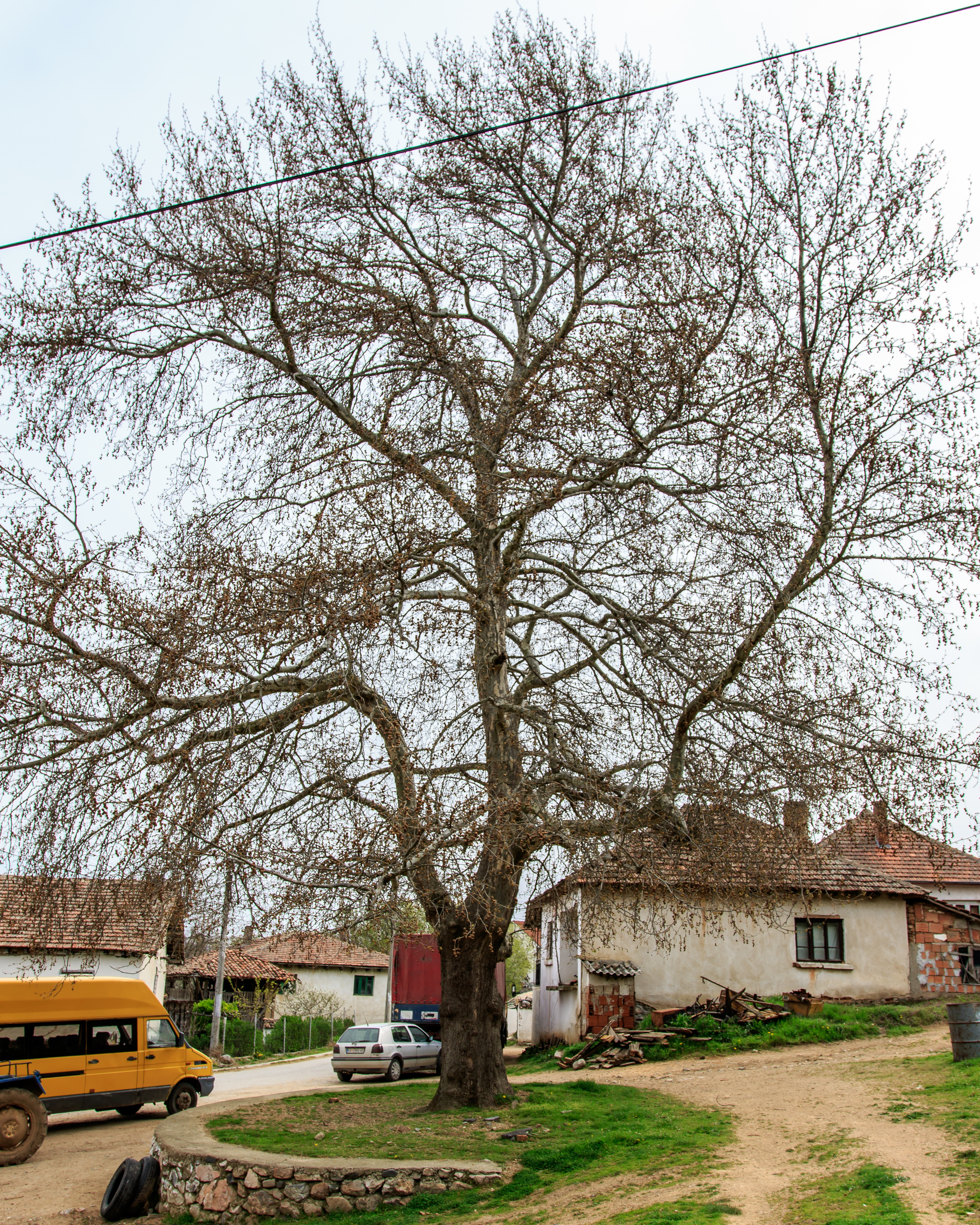 Old tree in the center of the village Lubnica